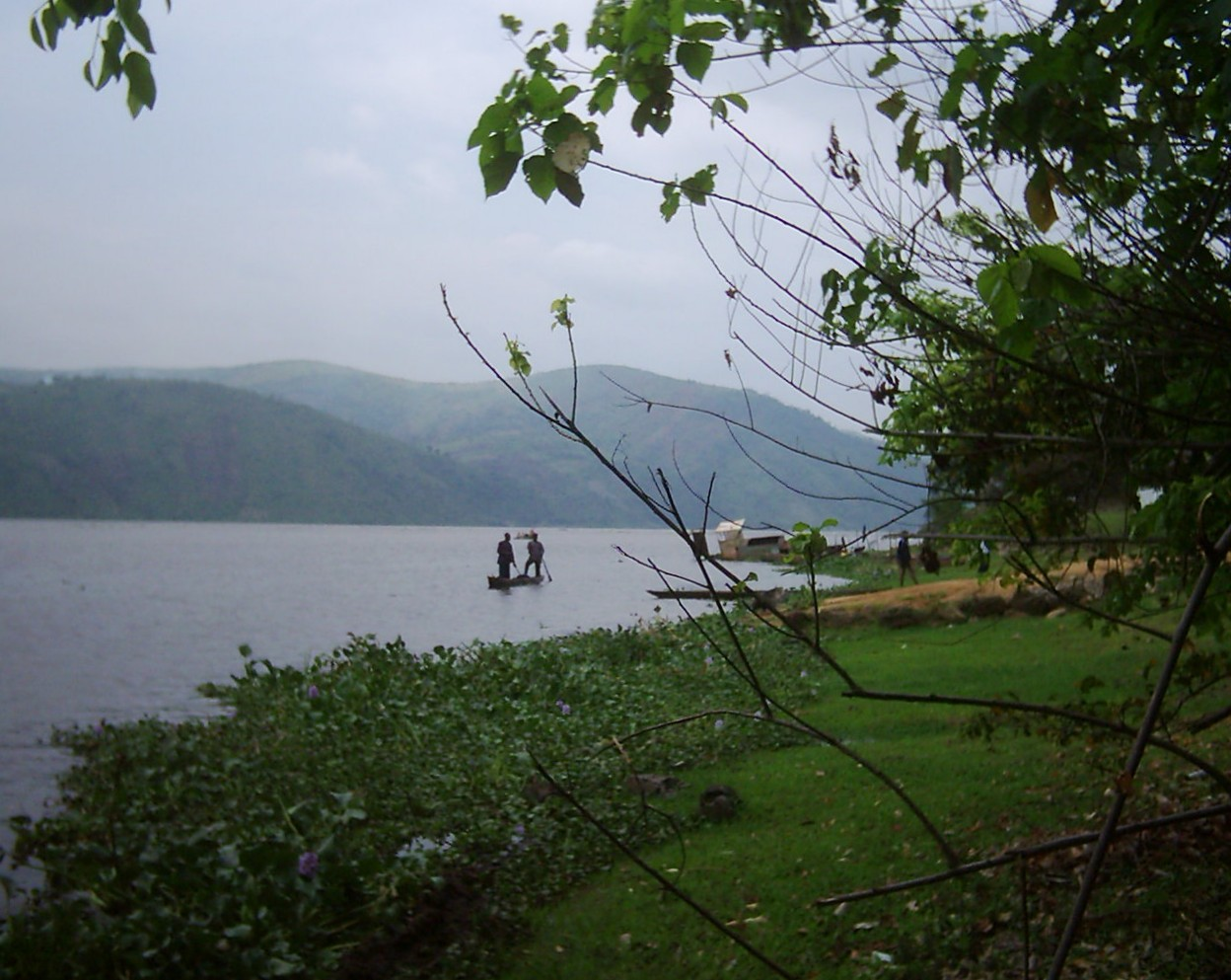 Congo (fleuve) river at Maluku (Congo); jacinthe d'eau on the bank